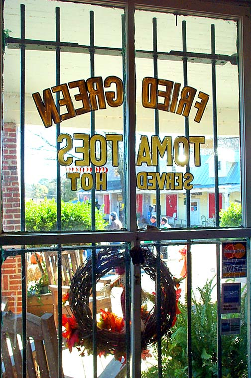 a view from inside the Whistle Stop Cafe, Juliette, GA - set of the movie "Fried Green Tomatoes"